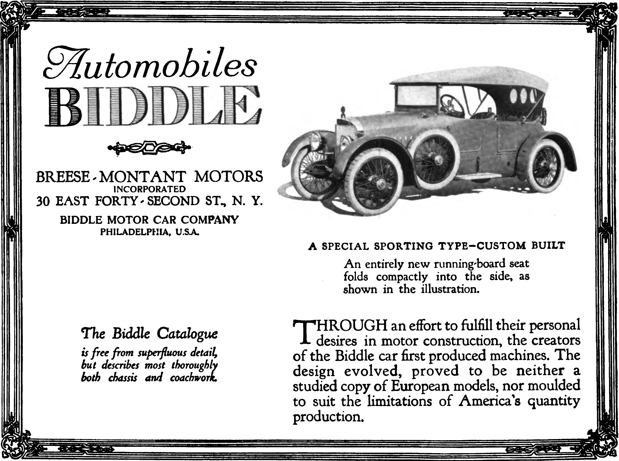 Biddle Motor Car Company built luxury automobiles in small quantities in Philadelphia from 1915 through 1922.